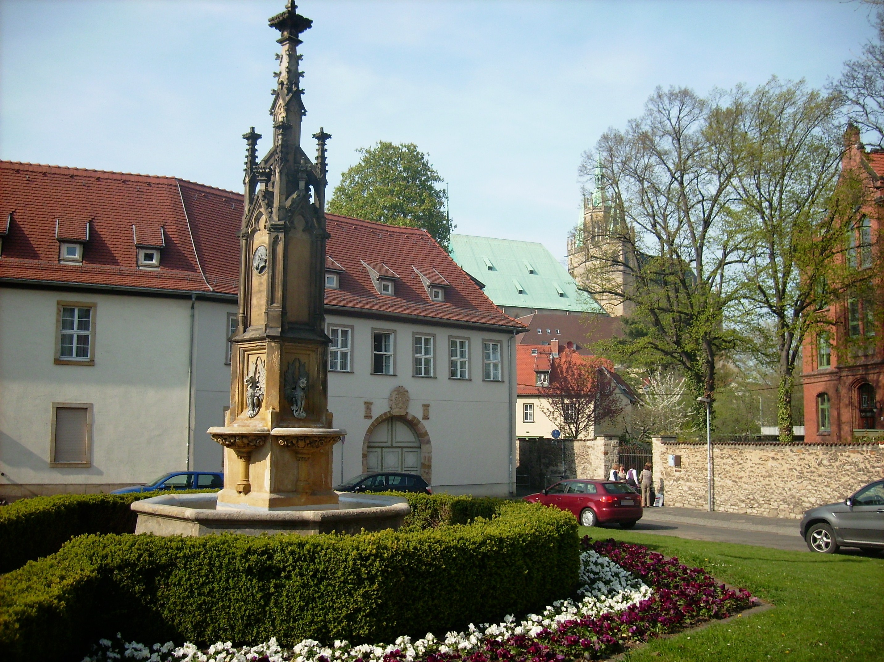 Herrmannsplatz (Herrmann Square) with Karl Herrmann memorial fountain in Erfurt (Thuringia)